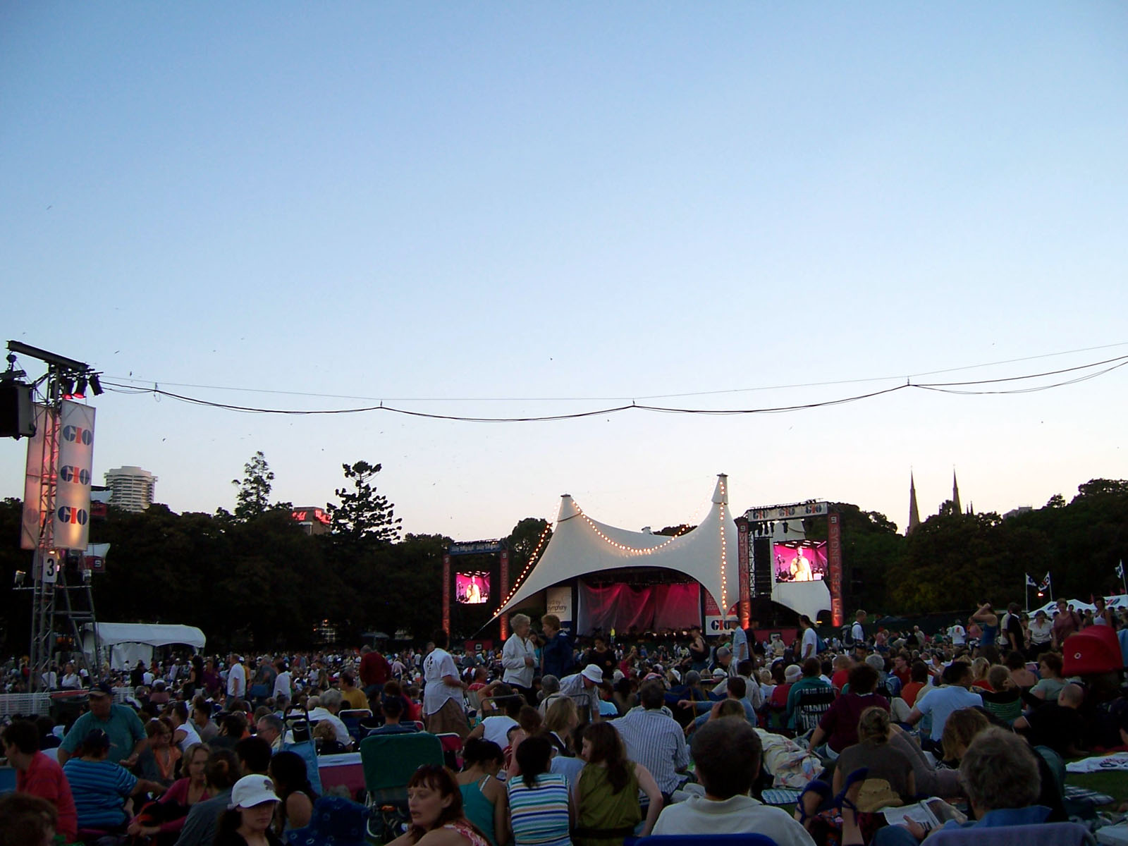 Symphony in the Domain, 2007, as part of the Sydney Festival. Taken on 20 January 2007. As a courtesy, please let me know if you alter this image or this image description page. Original filename was 100_1818.JPG.